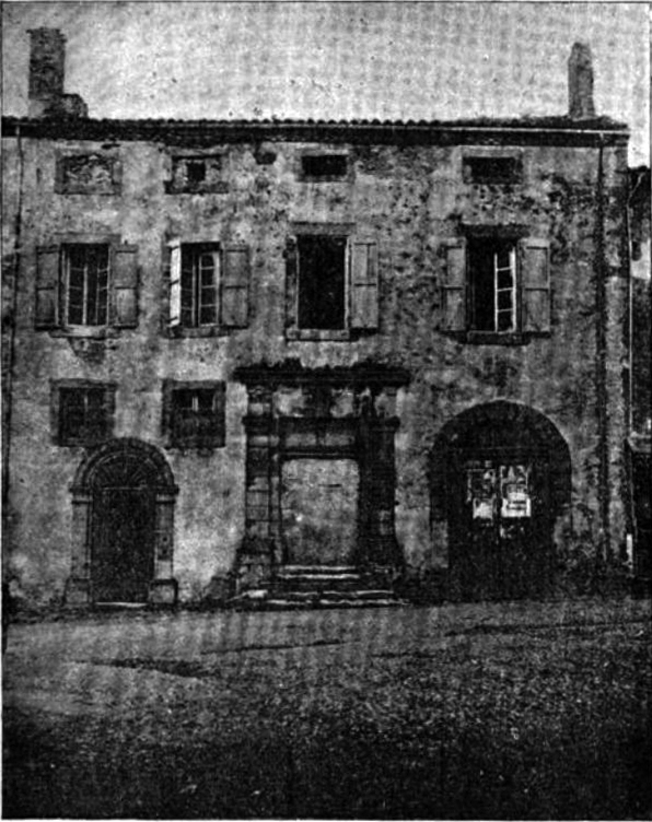 The Protestant Academy of Puylaurens (1598 – 1685)